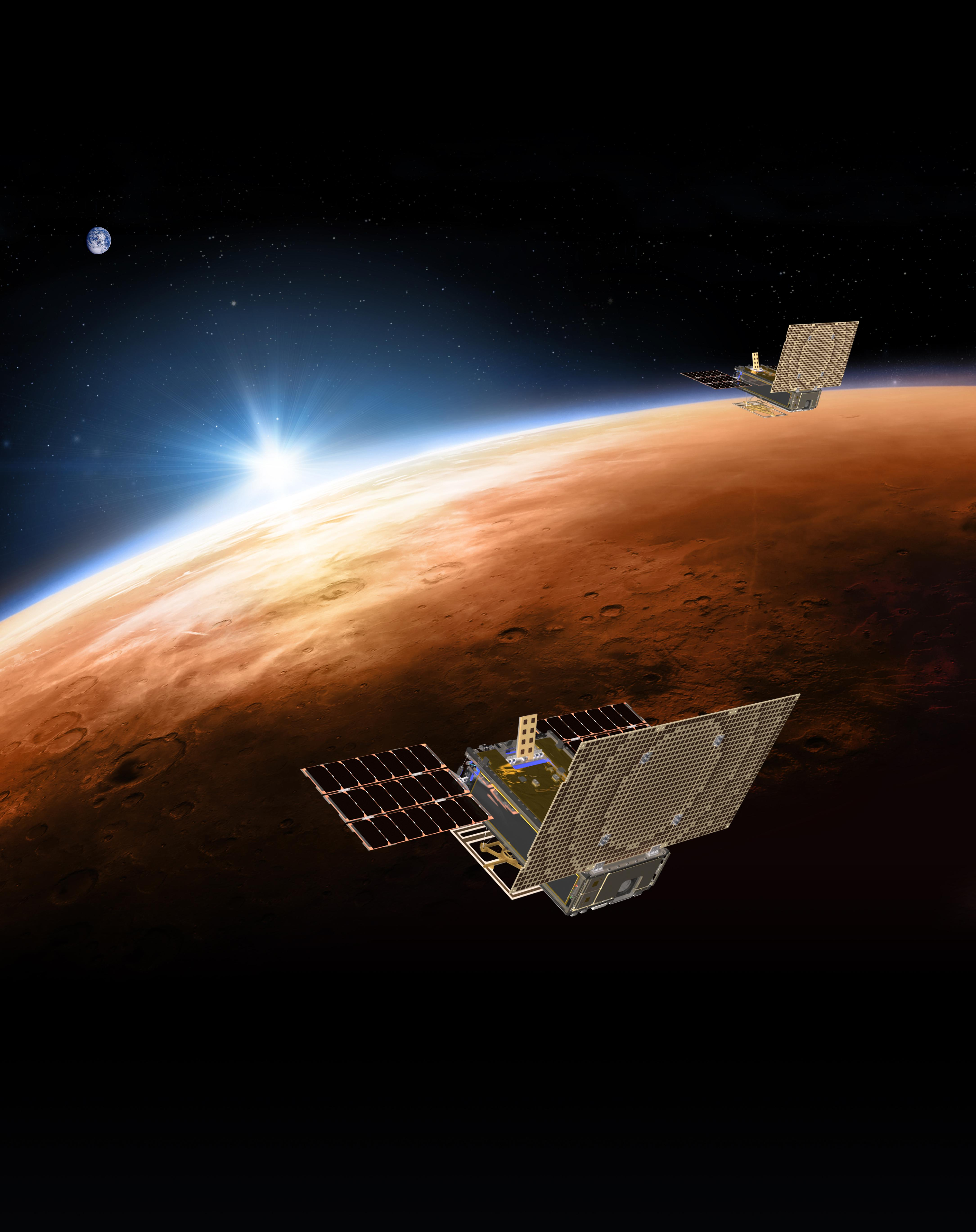 An artist's rendering of the twin Mars Cube One (MarCO) spacecraft flying over Mars with Earth in the distance. The MarCOs will be the first CubeSats -- a kind of modular, mini-satellite -- flown in deep space. They're designed to fly along behind NASA's InSight lander on its cruise to Mars. If they make the journey, they will test a relay of data about InSight's entry, descent and landing back to Earth. Though InSight's mission will not depend on the success of the MarCOs, they will be a test of how CubeSats can be used in deep space.